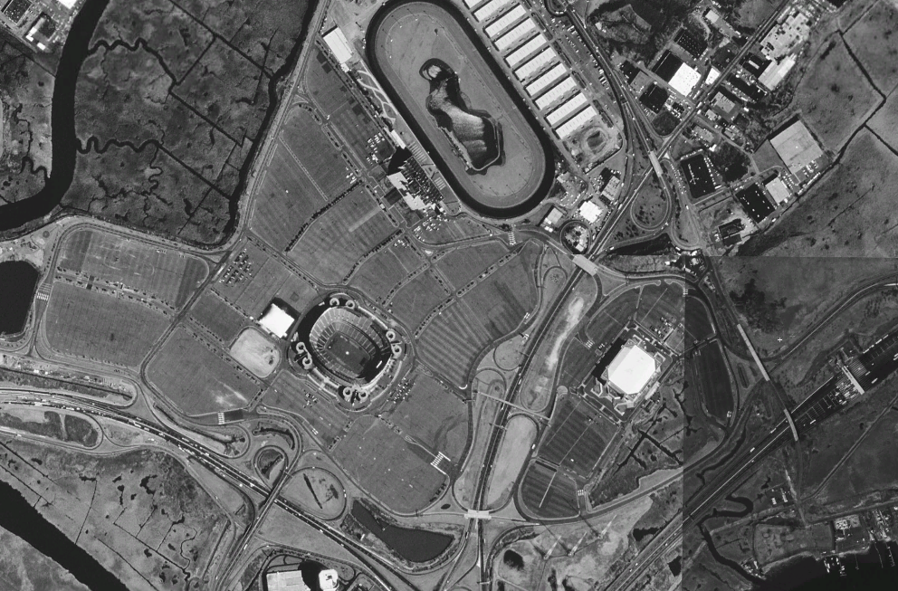 Meadowlands Sports Complex satellite view, nasa world wind 1.3.5